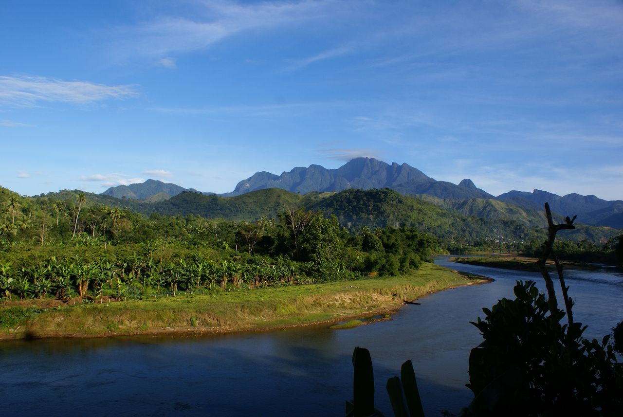 Marojejy mountains - Madagascar